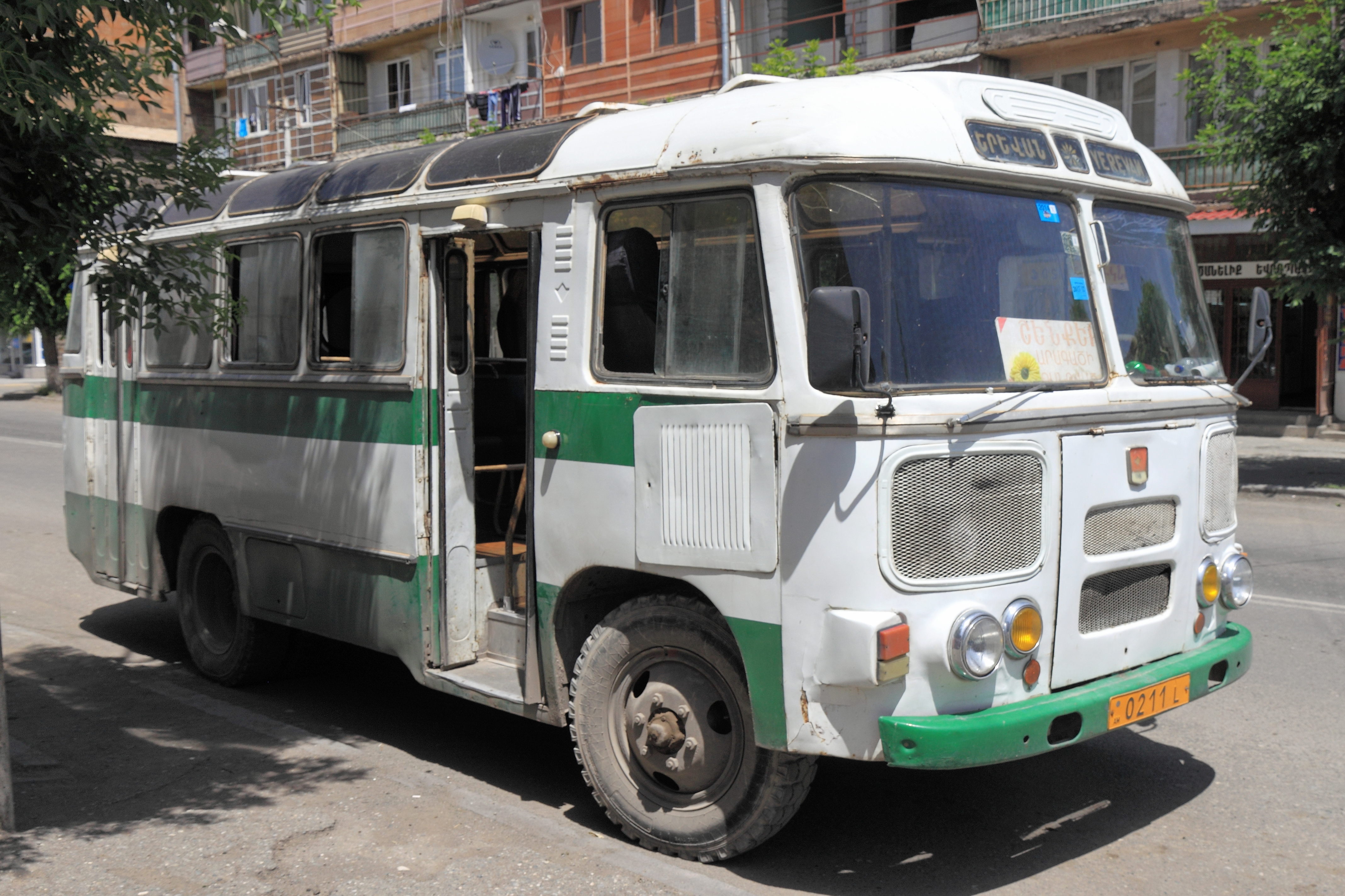 PAZ-672. Vagharshapat, Armavir Province, Armenia.